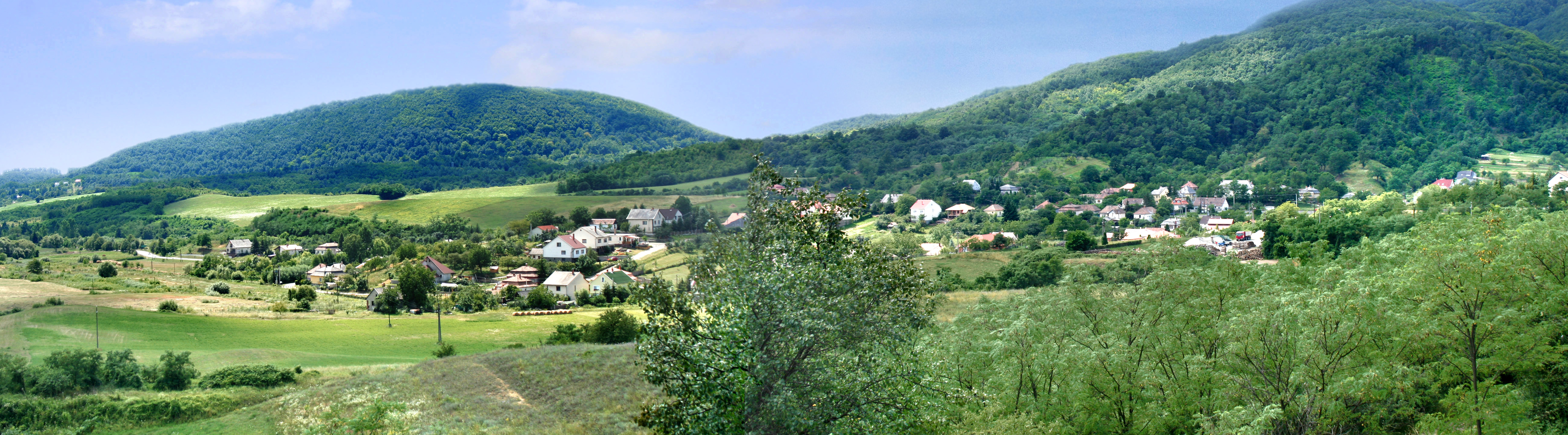 Somoskoujfalu, Nógrád County - Hungary